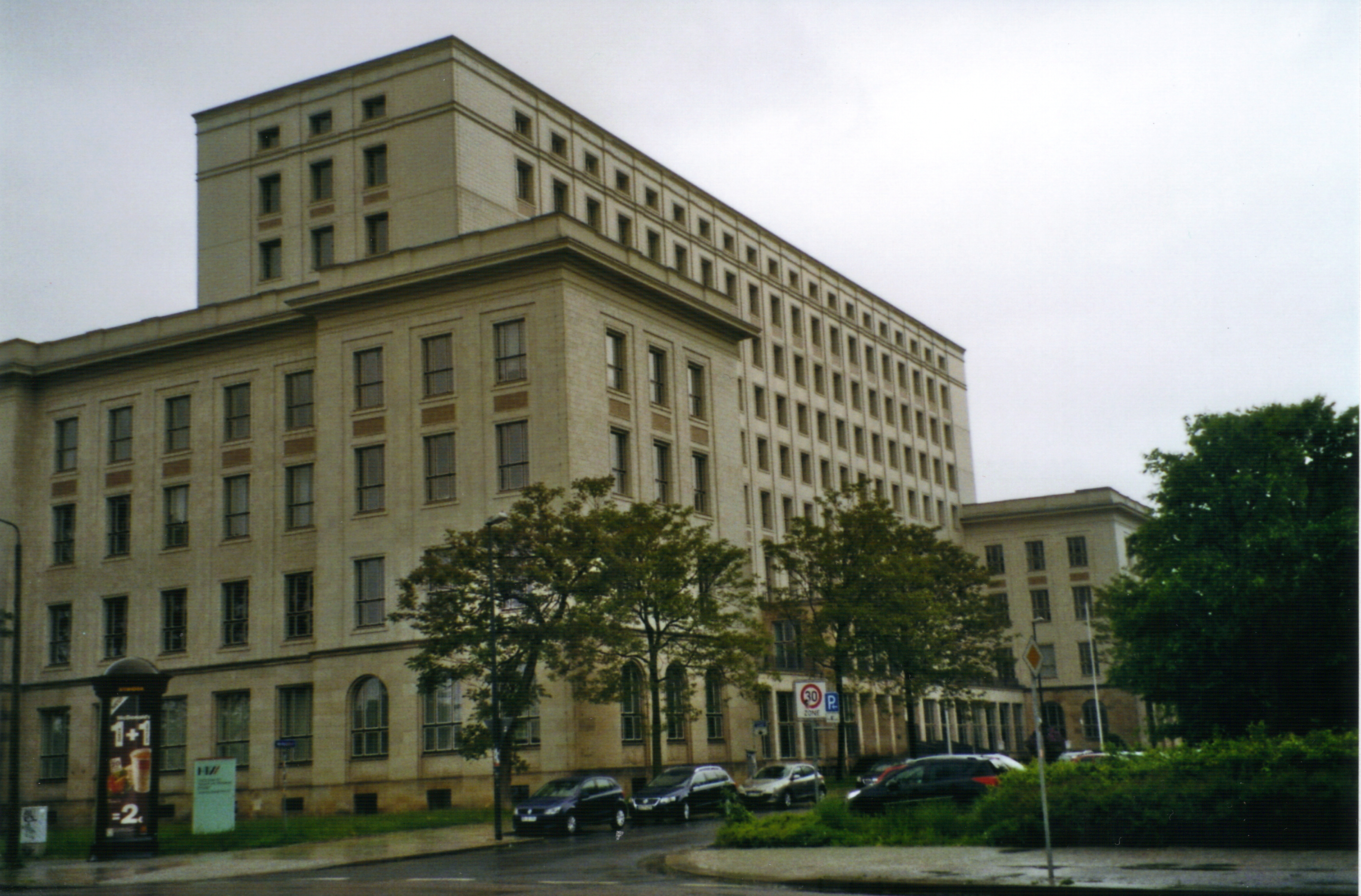 Central building of Hochschule fuer Technik und Wirtschaft Dresden